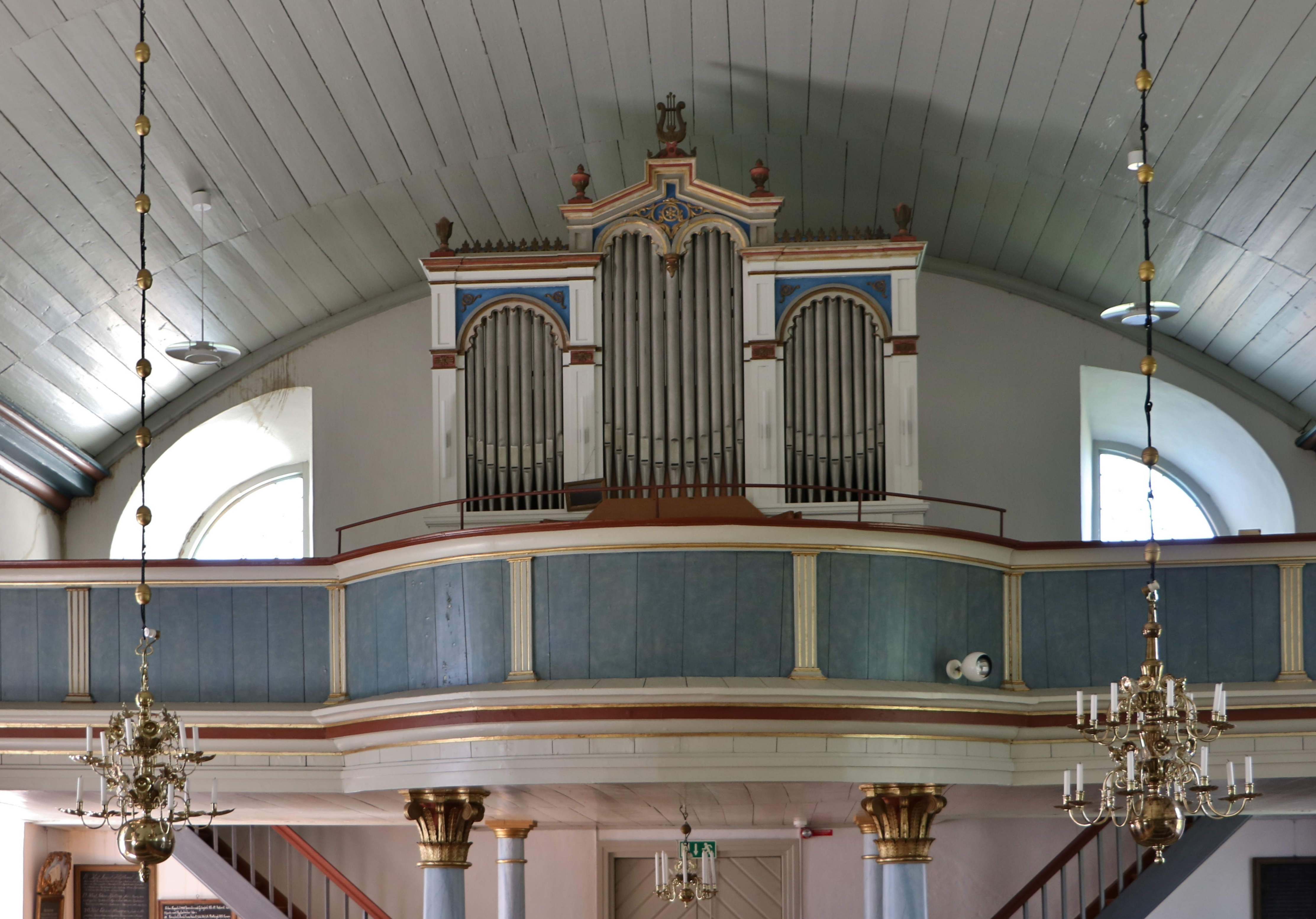 Segerstad Church.Organ